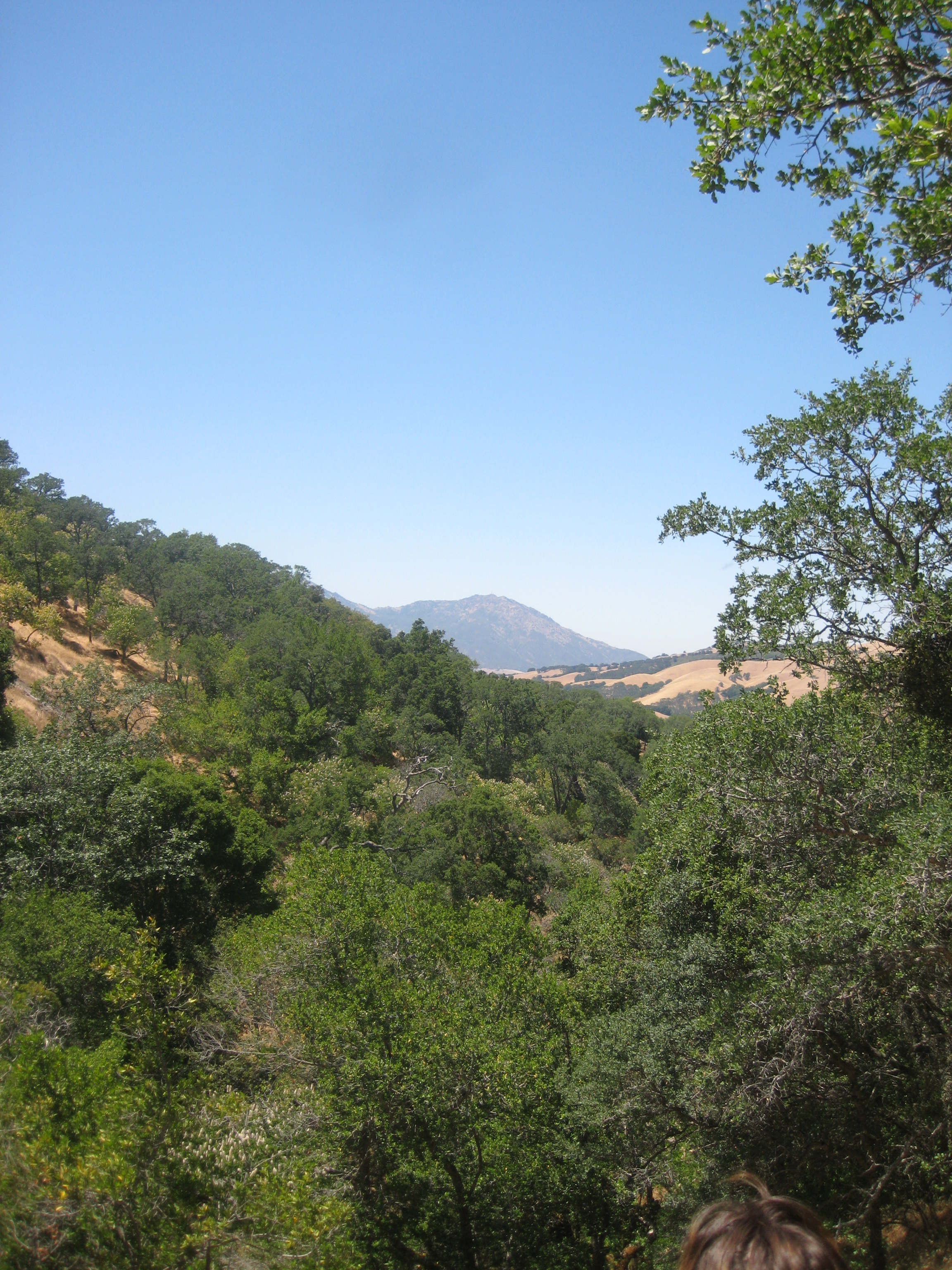 Morgan Territory Regional Park in north Livermore